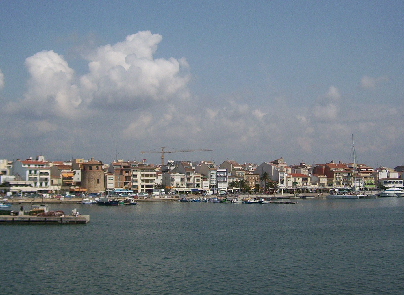 Photo made August 2005 shows Cambrils, Catalonia, near Tarragona, harbour and skyline